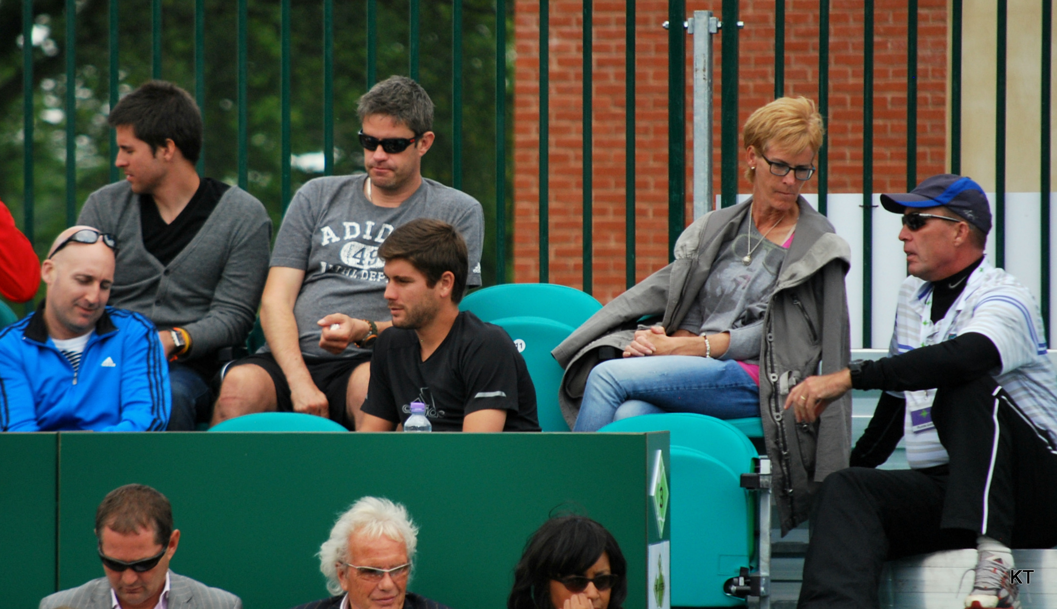 Judy Murray and Ivan Lendl having a chat during Andy's match. Well, it's only an exho. The Boodles, Stoke Park, June 2012.